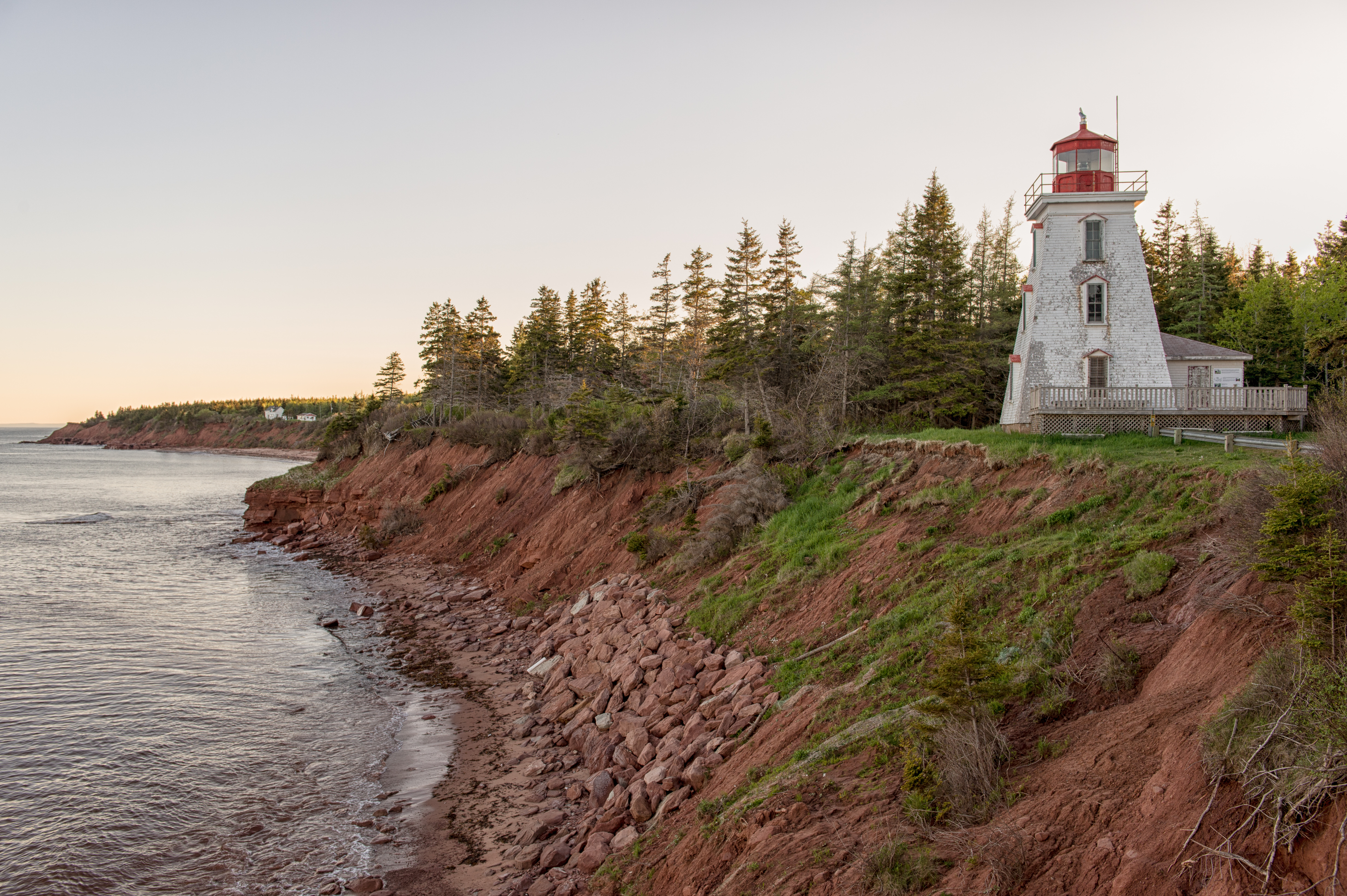 Cape Bear Lighthouse, P.E.I. in June 2014